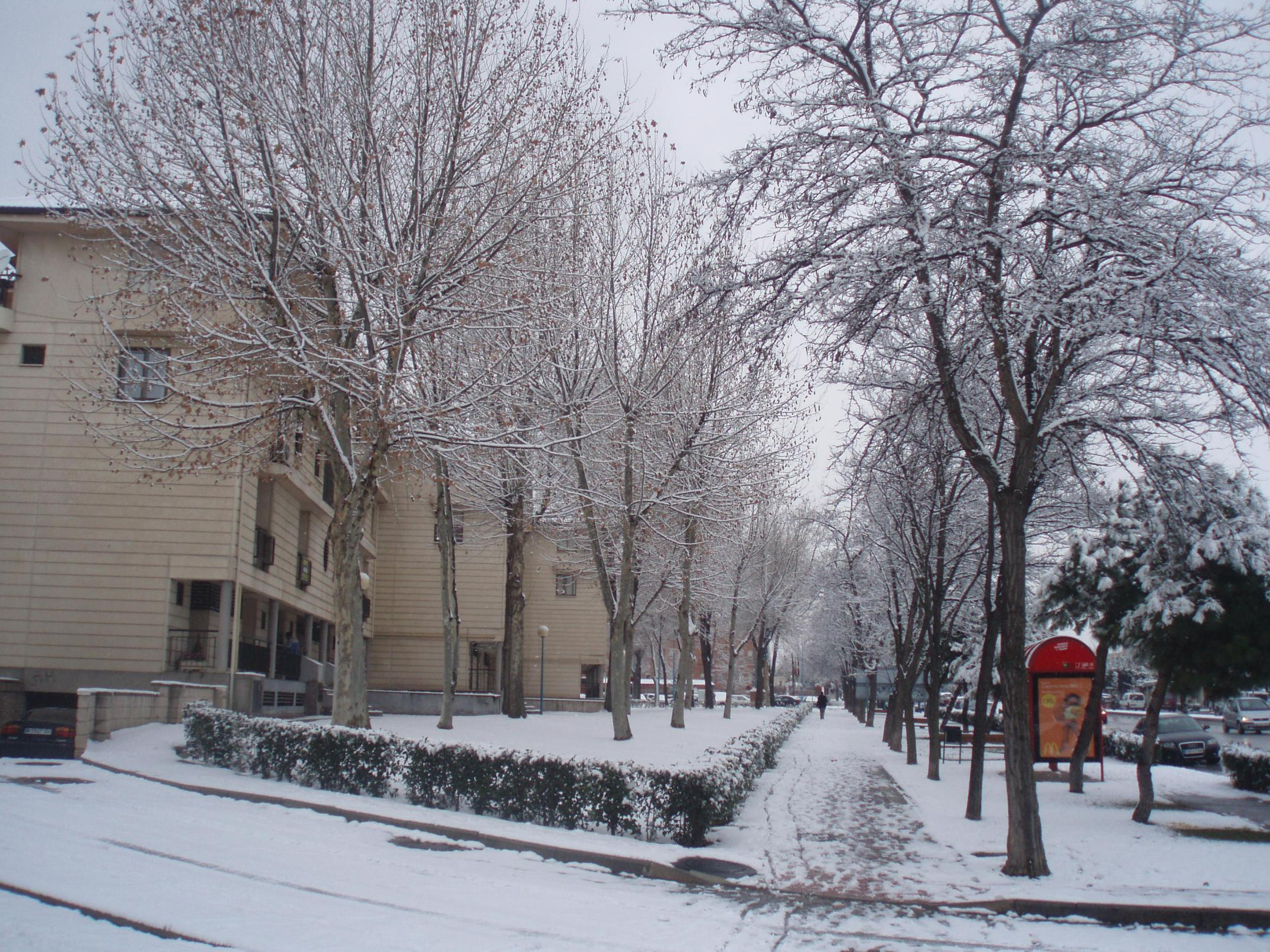 Getafe after a snowfall (Community of Madrid, Spain).